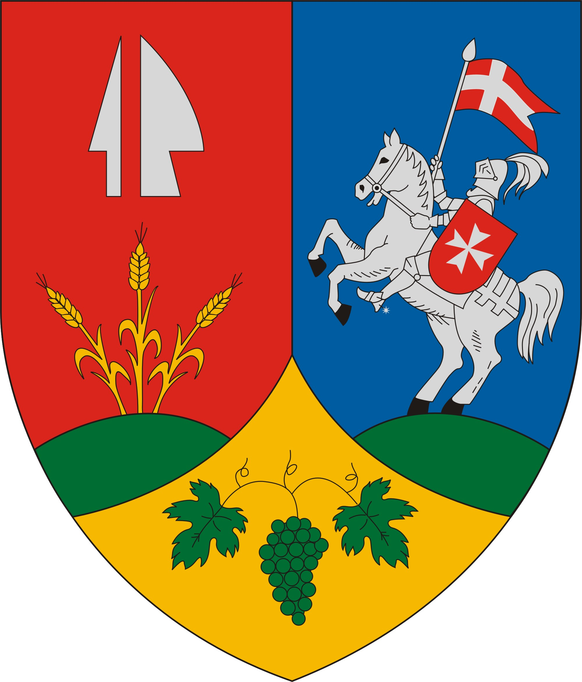 Coat of arms of Iszkaszentgyörgy, Hungary